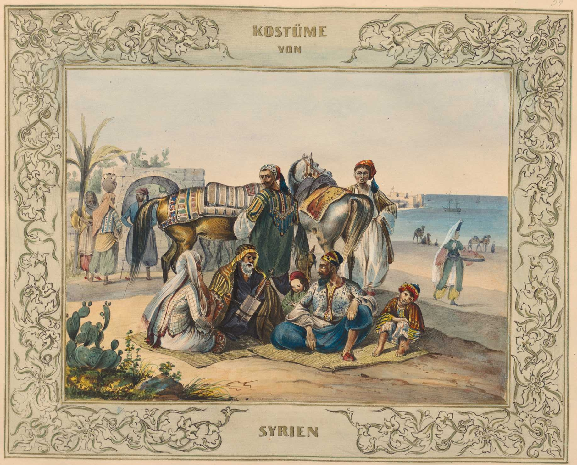 Mayr, Heinrich von / Bavaria, Maximilian in: Picturesque views from the Orient, collected on the trip Sr. Highness of the Duke Maximilian in Bavaria in the year MDCCCXXXVIII, Munich [u.a.], 1839 - 1840